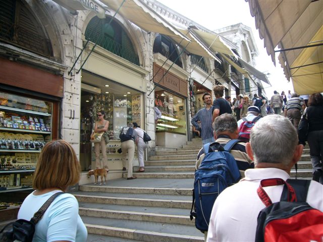 Rialto bridge in Venice: stairs.